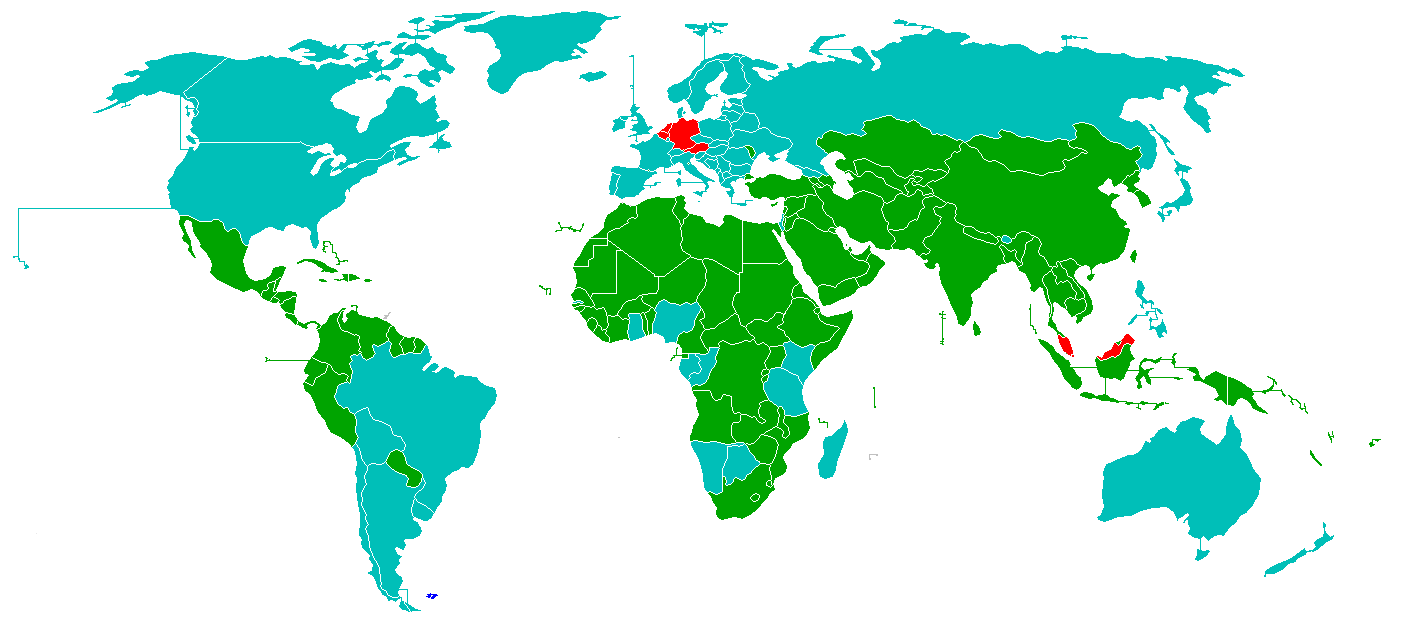 Privatization of post offices around the world. Green: State-administered post office Cyan: Corporation owned entirely by one or more states Red: Corporation with private ownership